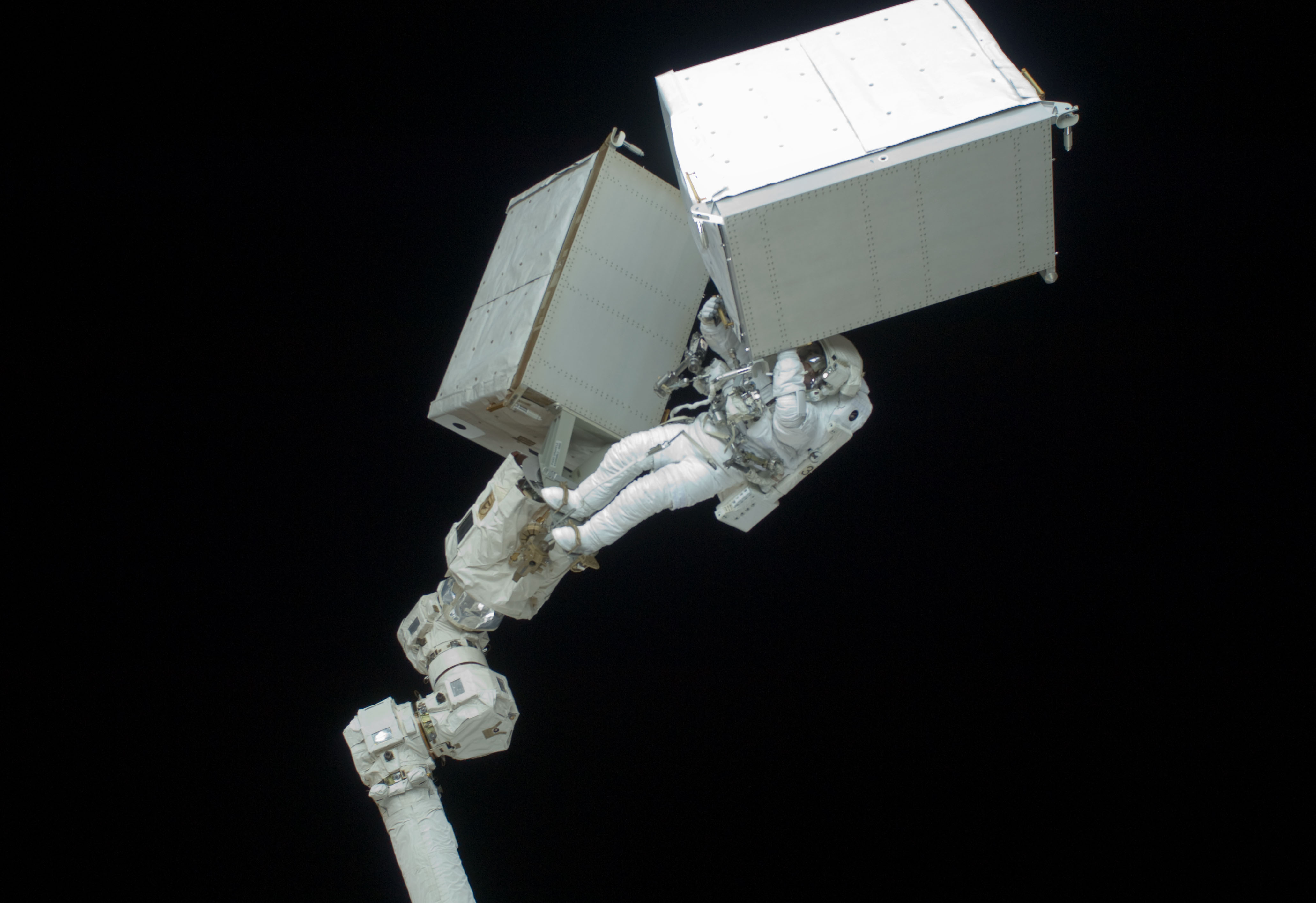 Anchored to a Canadarm2 mobile foot restraint, European Space Agency astronaut Christer Fuglesang, STS-128 mission specialist, participates in the mission's second session of extravehicular activity (EVA) as construction and maintenance continue on the International Space Station. During the six-hour, 39-minute spacewalk, Fuglesang and NASA astronaut John "Danny" Olivas (out of frame), mission specialist, installed the new Ammonia Tank Assembly on the Port 1 Truss and stowed the empty tank assembly into the Space Shuttle Discovery's cargo bay.